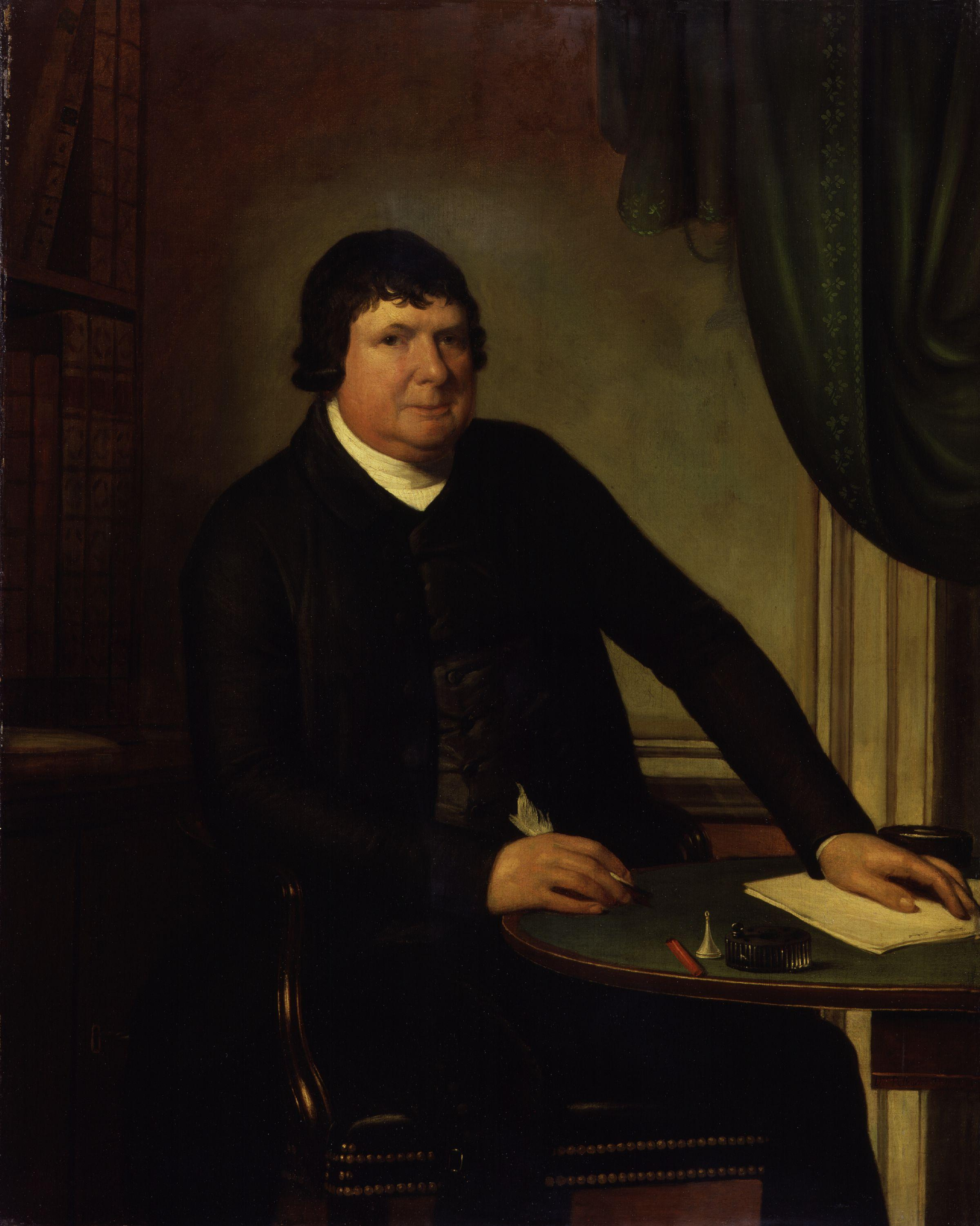 Given to the National Portrait Gallery, London in 1862. All images in this batch have been confirmed as author died before 1939 according to the official death date listed by the NPG.